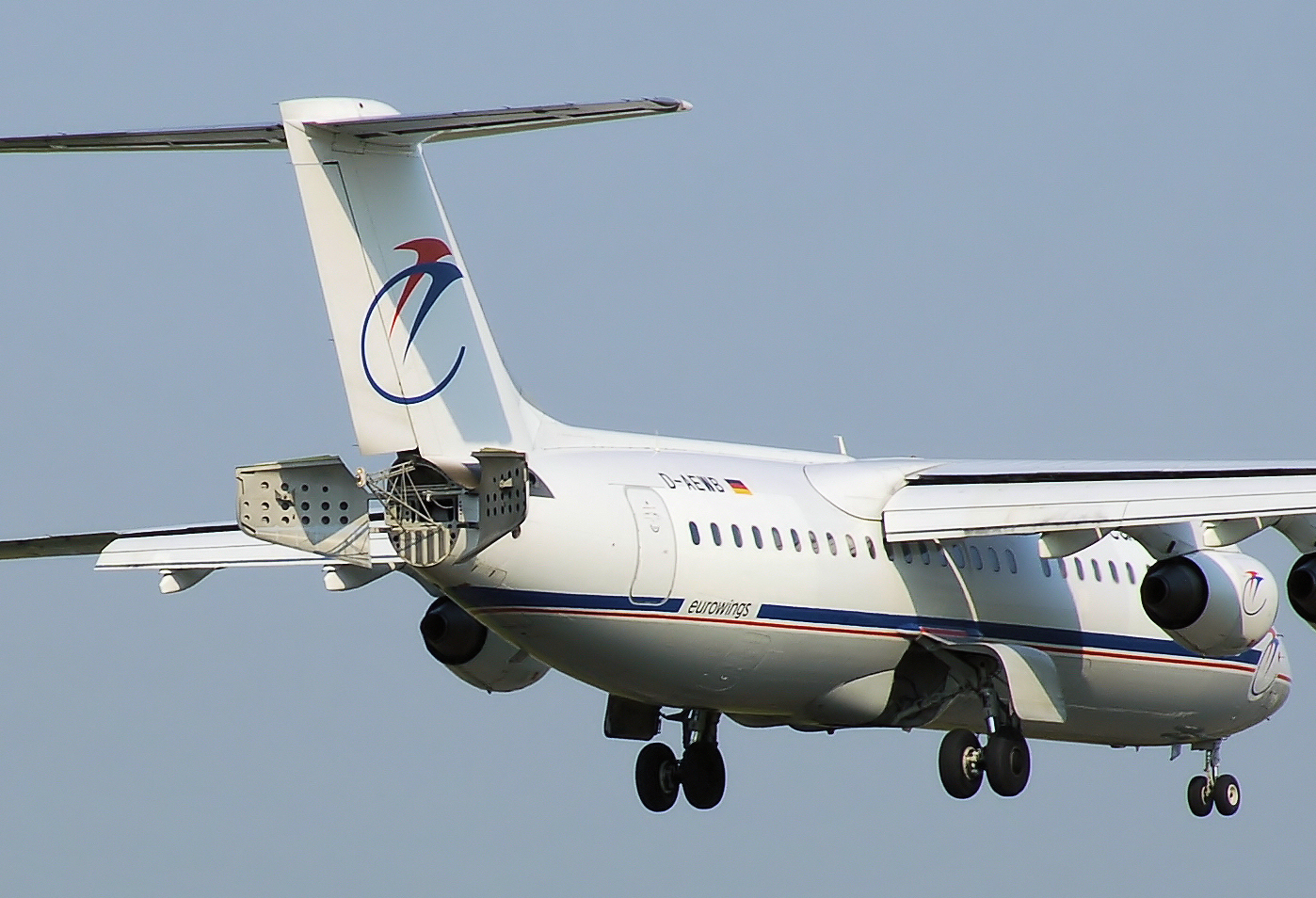 Eurowings British Aerospace 146-300 (D-AEWB) lands at Birmingham International Airport, England. The two petals at the rear of the aircraft, under the rudder, are the air brakes, deployed to help slow it down on final approach.